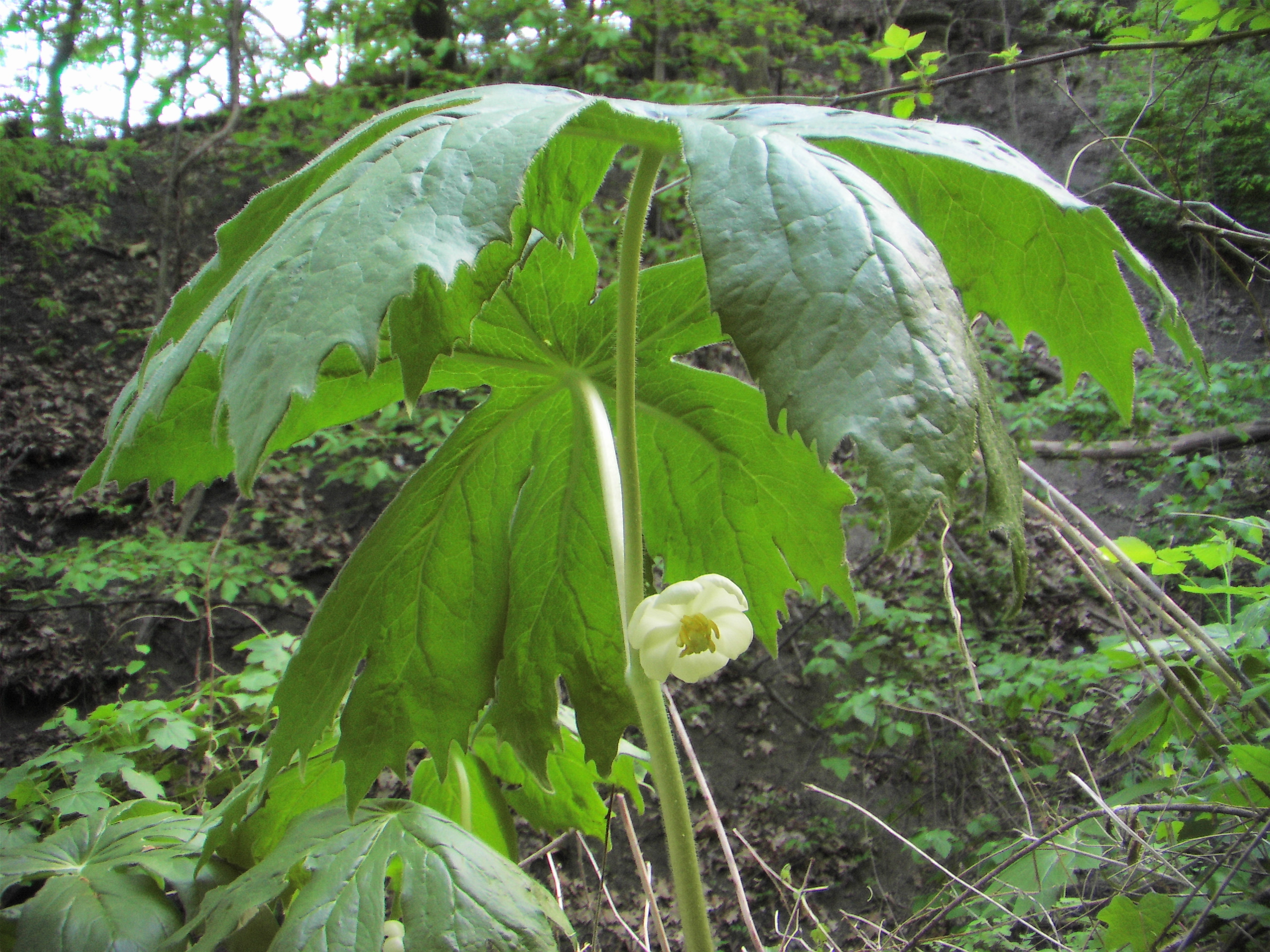 Mayapple plant with lone flower